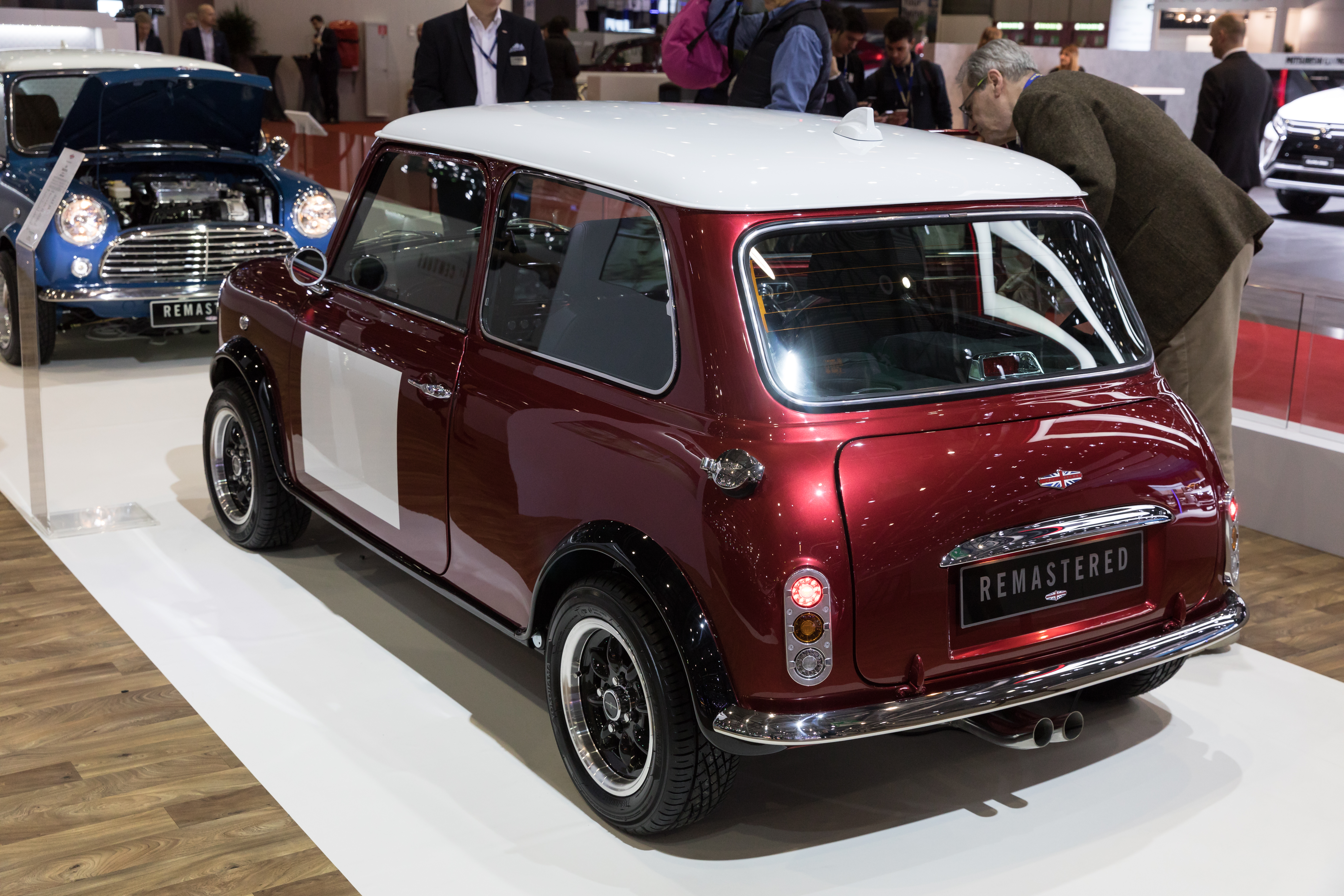 David Brown Automotive Mini Remastered at Geneva International Motor Show 2018